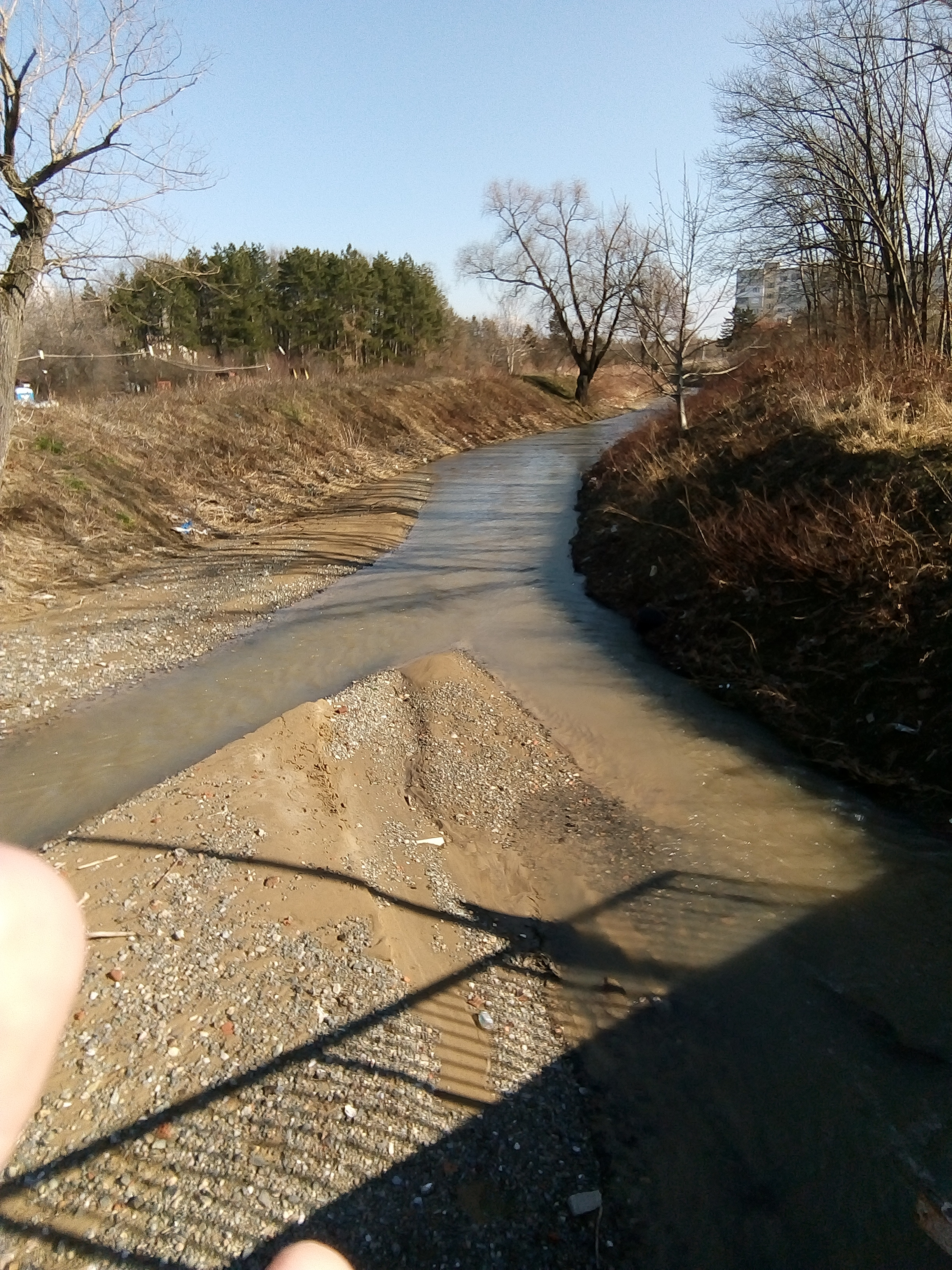 Kakach river near Sofia